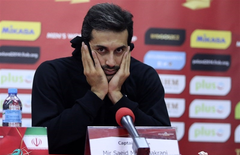 saeid marouf captain of Iran men's national volleyball team